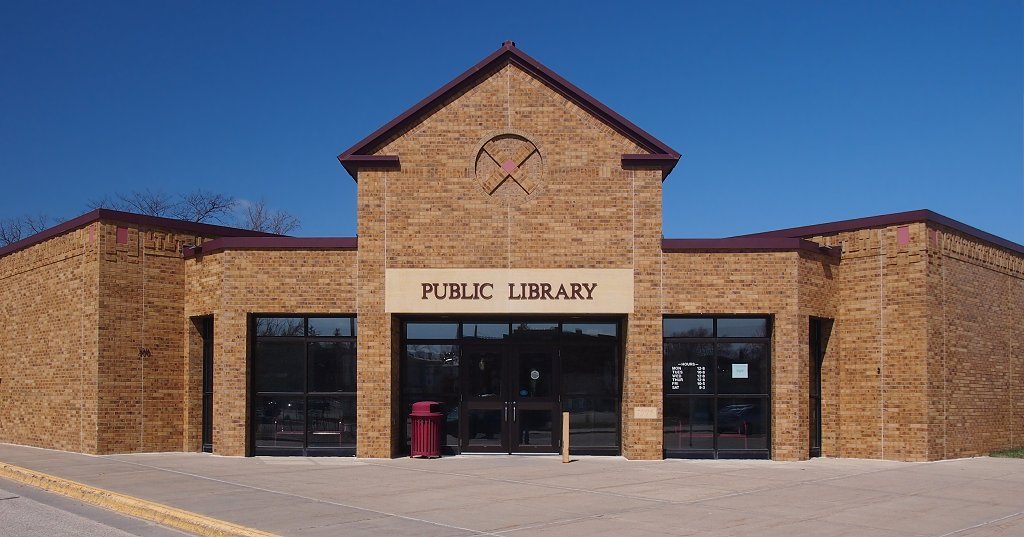 Zumbrota Public Library, 100 West Ave, Zumbrota, Minnesota, USA. Viewed from the southeast.